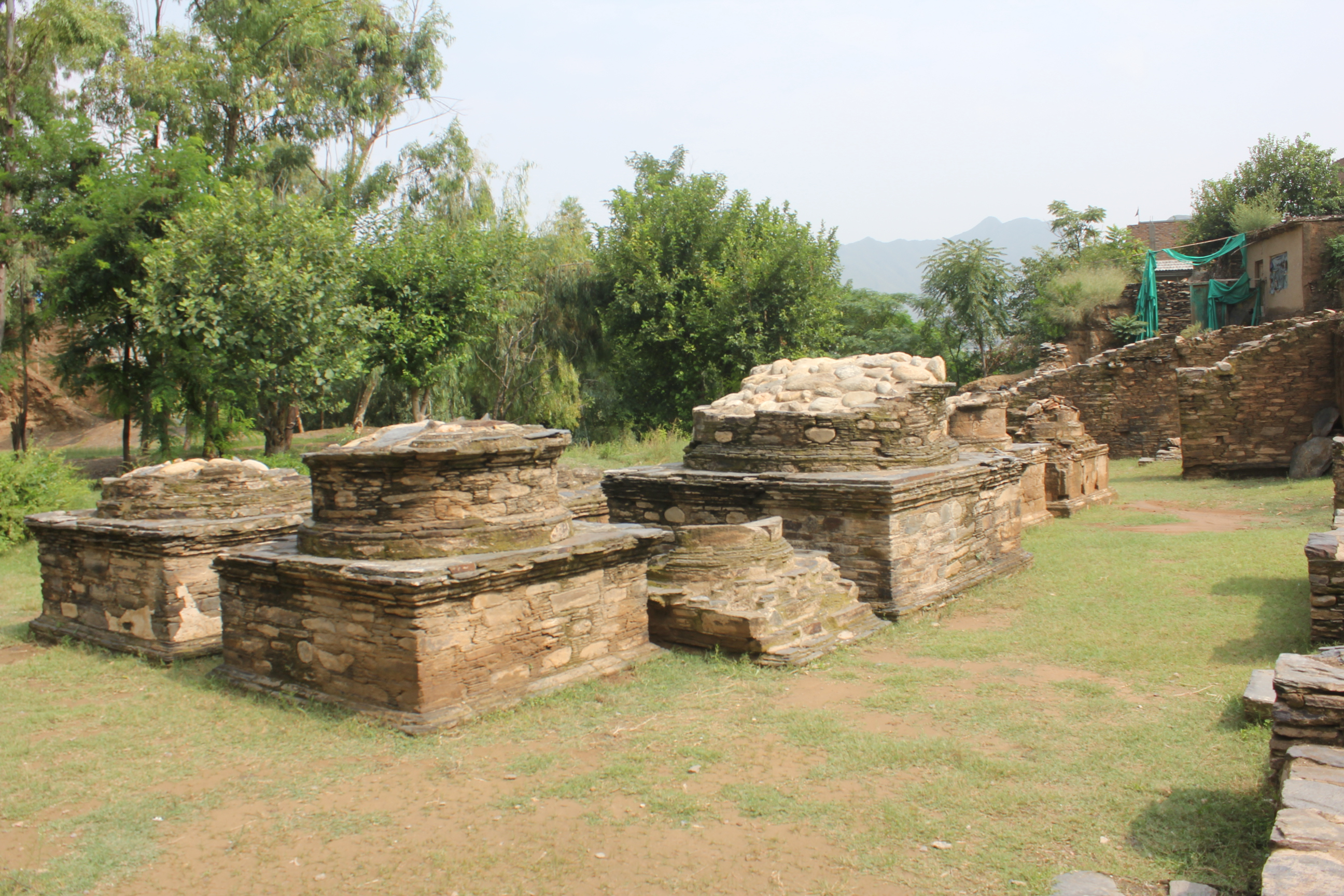 Butkara-III This is a photo of a monument in Pakistan identified as the KPK-82